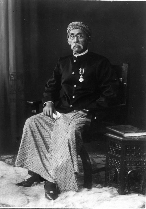 Portrait of the governor of Sumedang Pangeran Aria Soeria Atmadja